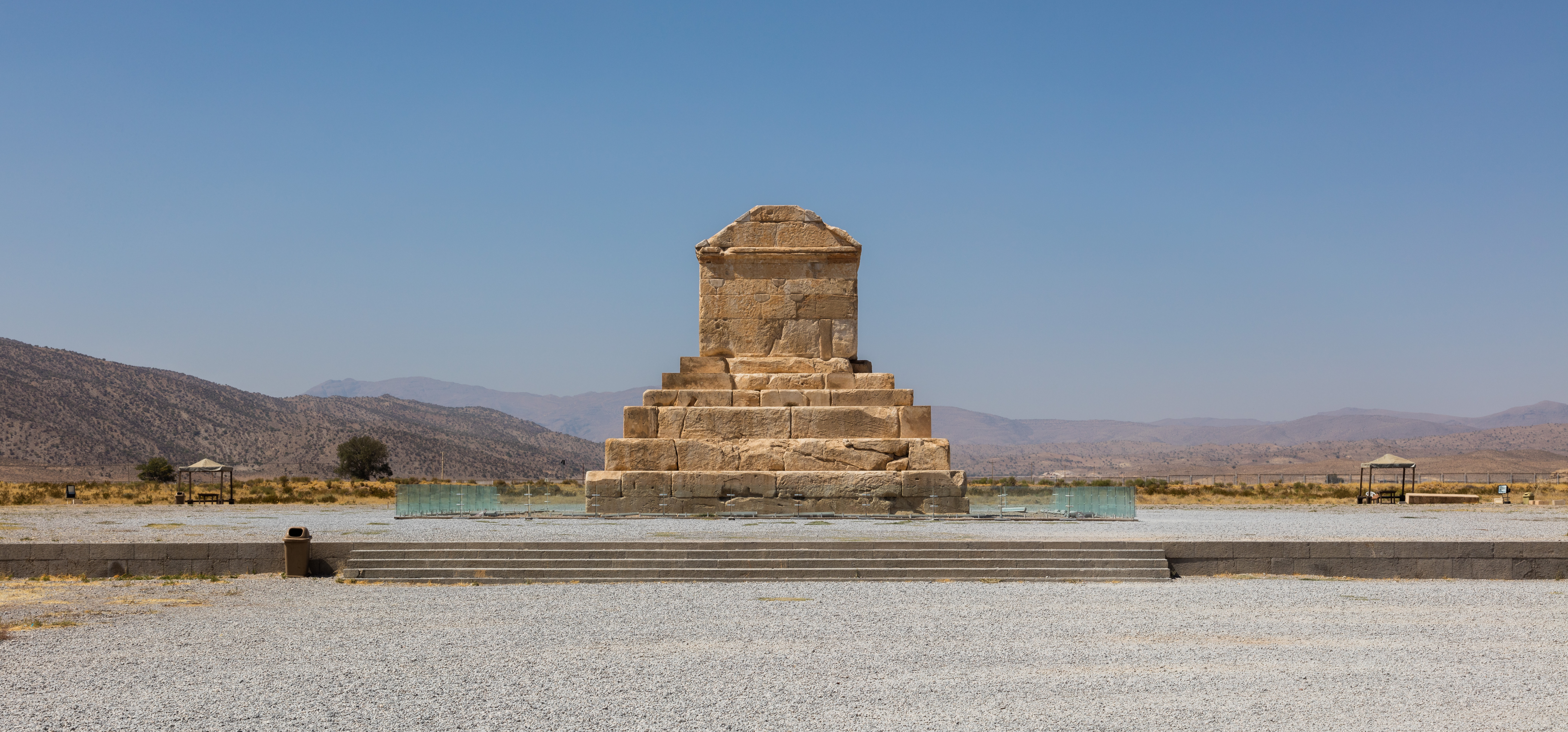 Pasargadae, Iran